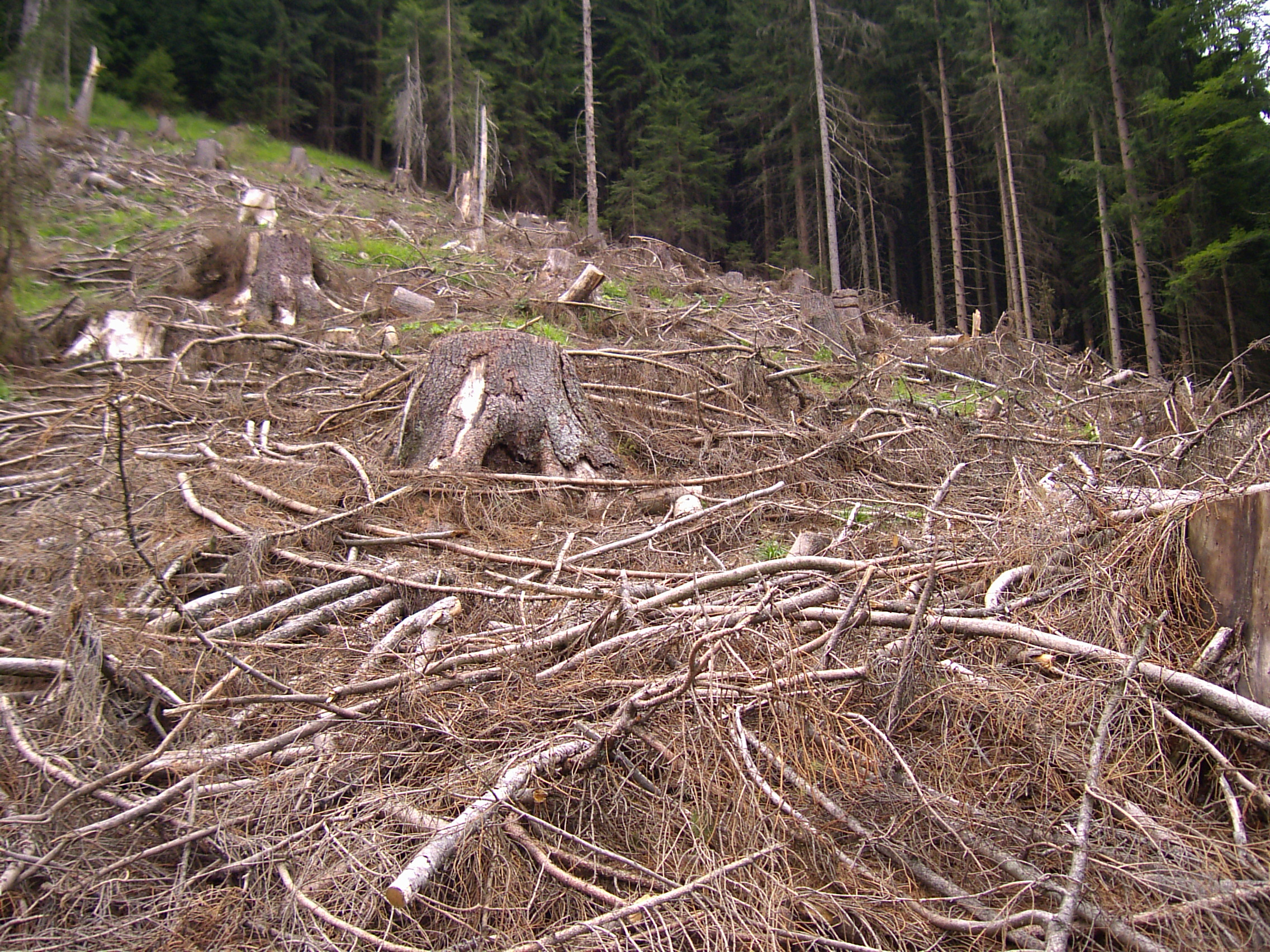 Clearcutting in German alps near Kreuth (Upper Bavaria).